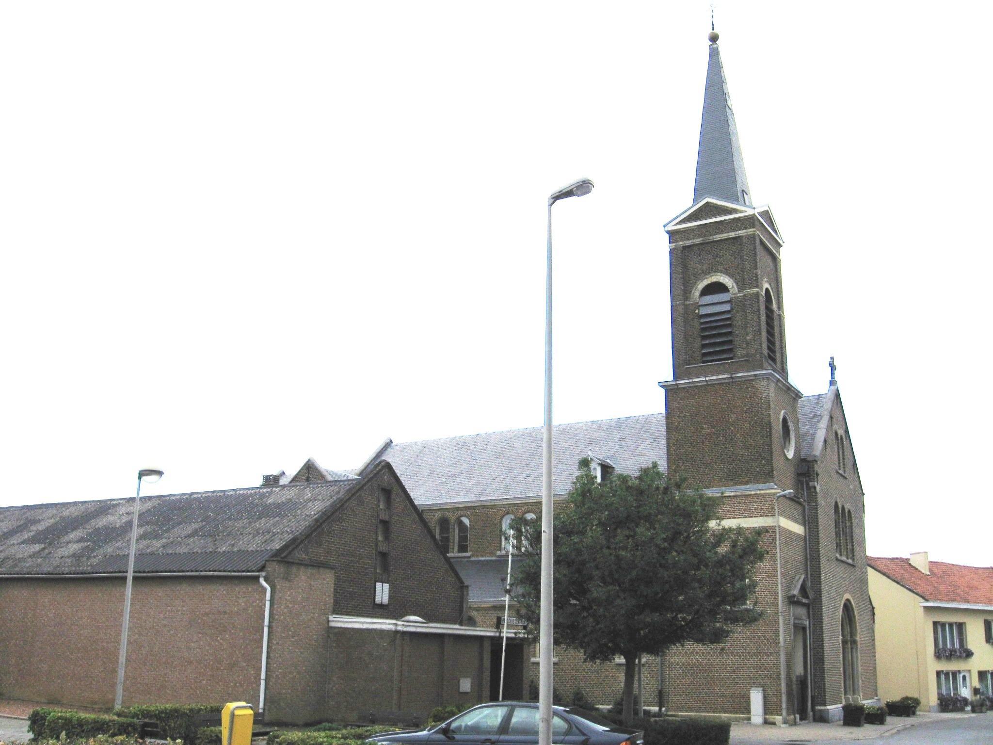 Church of Saint Catherine in Mopertingen, Bilzen, Limburg, Belgium